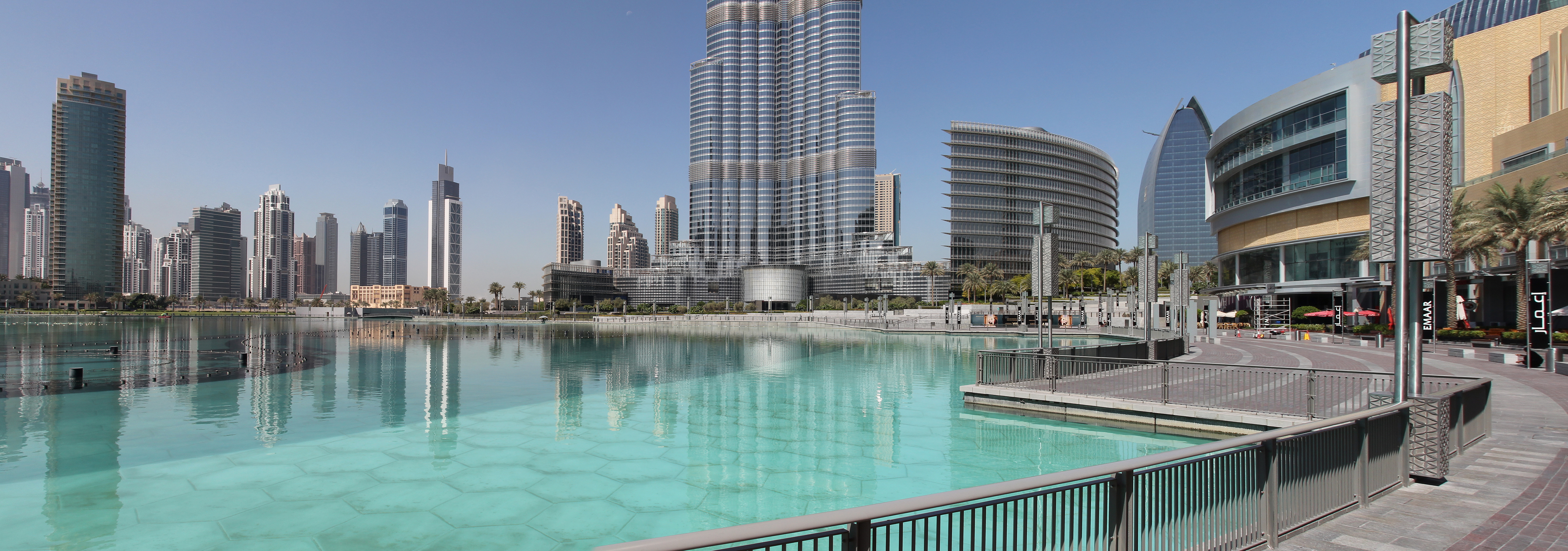 The Dubai Fountain